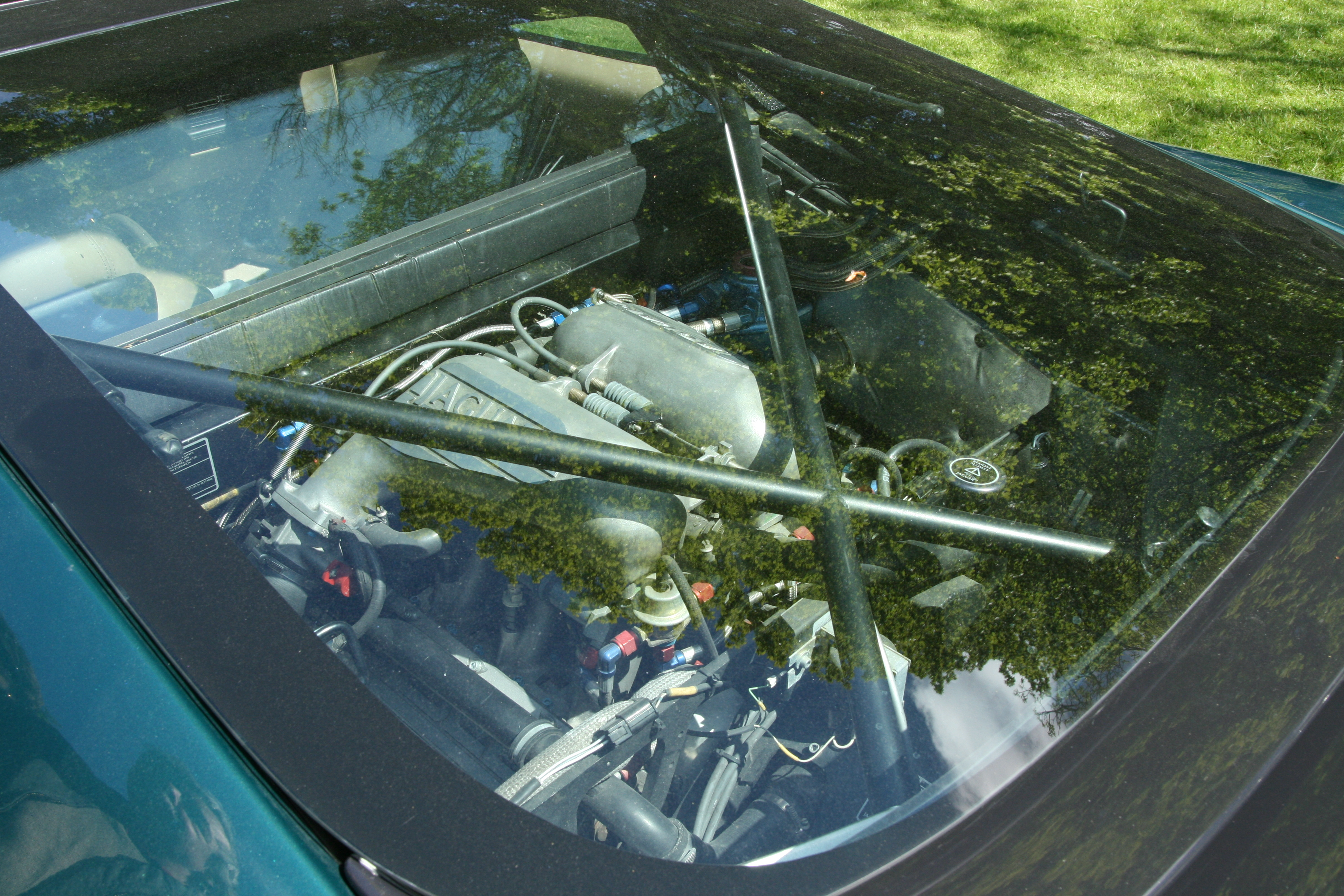 The engine bay of a 1994 Jaguar XJ220, parked at the Sofiero Classic car show at Sofiero castle in Helsingborg, Sweden.